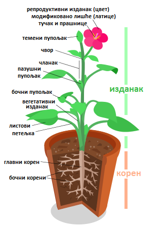 Schematic picture of the parts of plant, system of shoot and root.